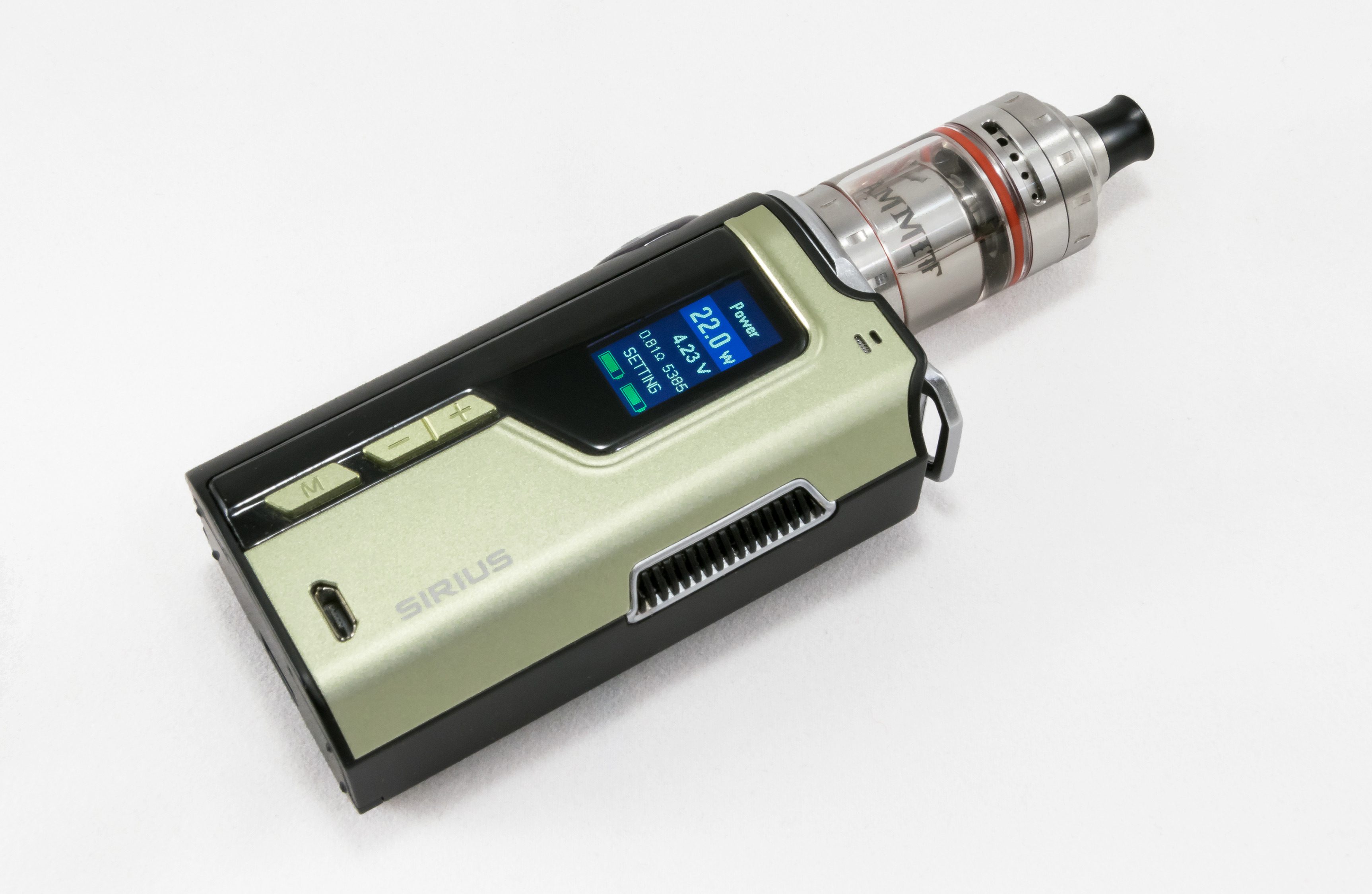 Power supply Lost Vape Modefined Sirius 200W TC and vaporizer Geek Vape Ammit MTL RTA